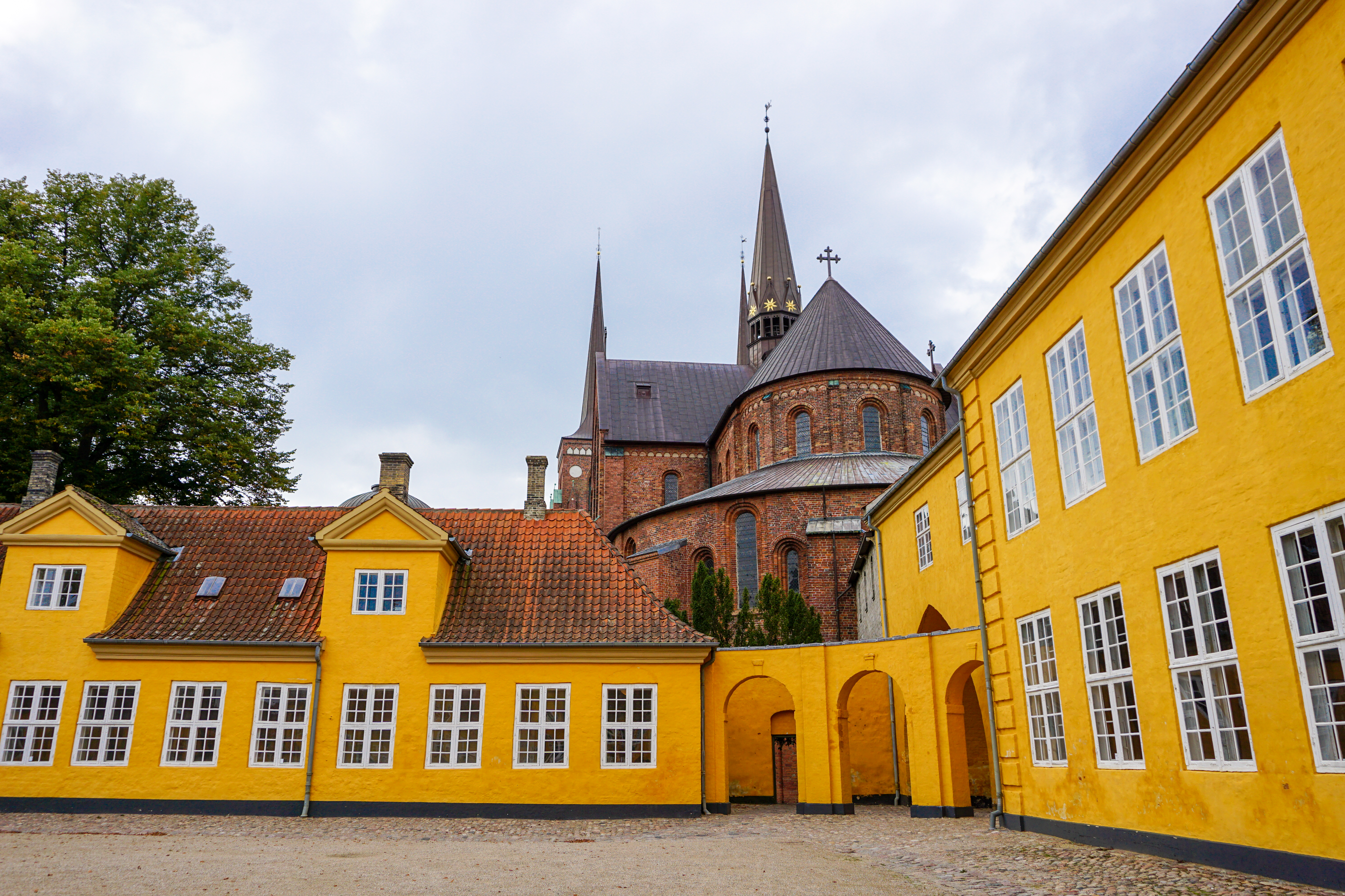 View of Roskilde Domkirke from Bishop's house in Roskilde, Denmark.